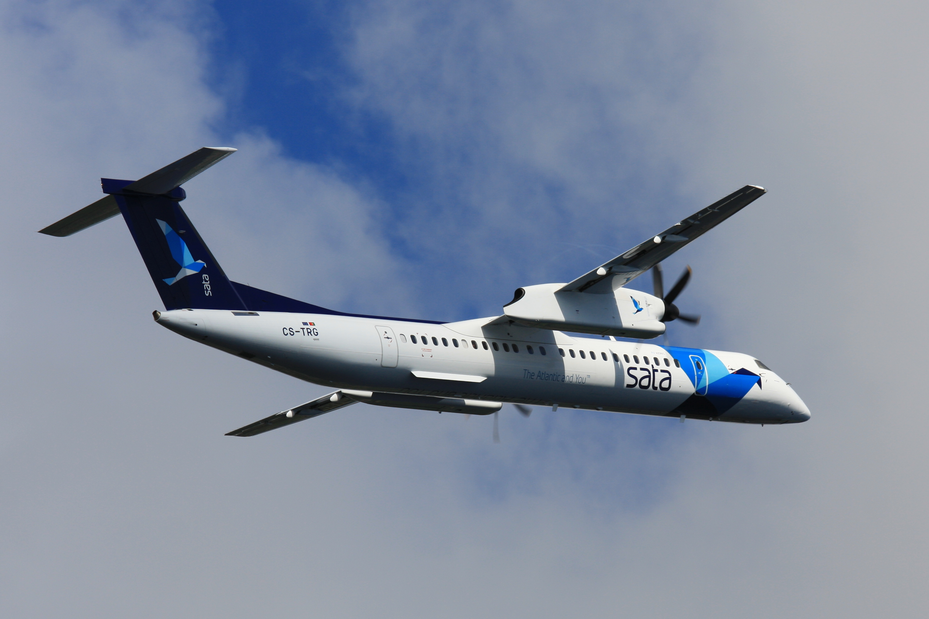 A Dash8-Q400 of SATA Air Açores taking off from Flores Airport